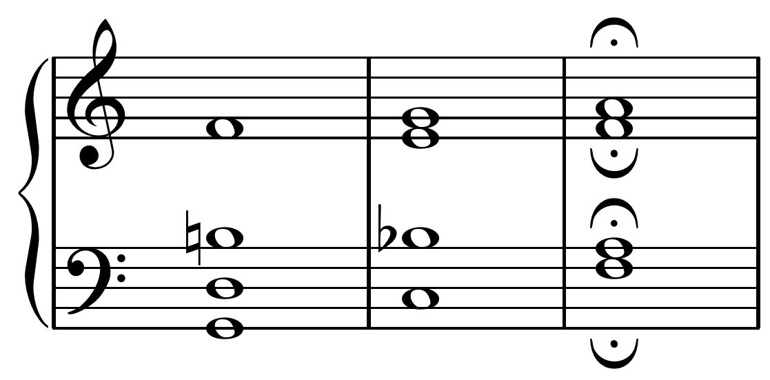 Secondary dominant with barbershop seventh chords. V/V - V - I in F major (G7-C7-F). Derived from [1]. Sevenths are harmonic sevenths, and the F in the first measure is 27.26 cents lower than the F in the third measure. In Ben Johnston notation: G B D F+ C E G B♭ F A C E♭ Ratios: 3/2 15/8 9/8 21/16 1/1 5/4 3/2 7/4 4/3 5/3 1/1 7/6